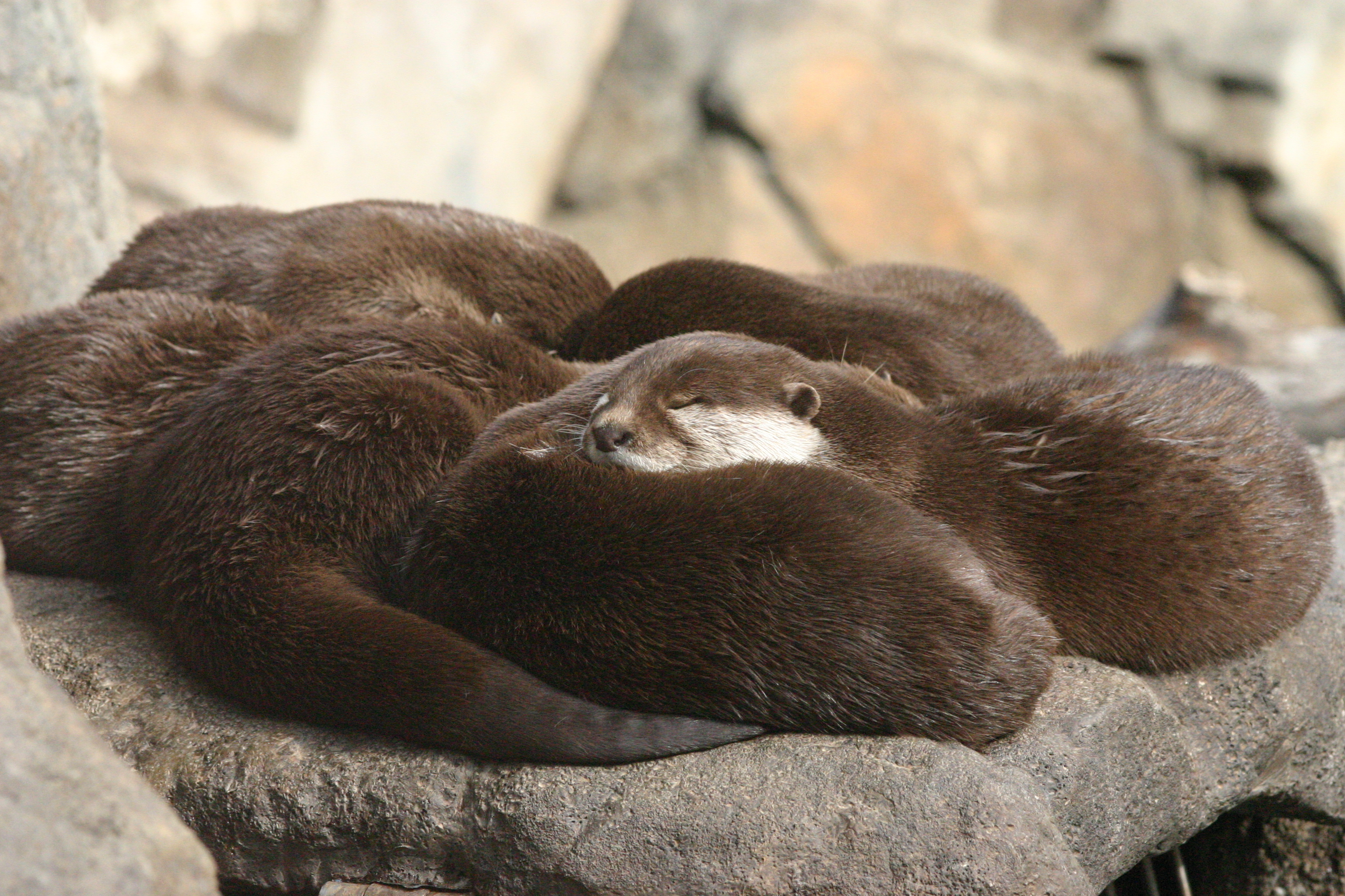 Oriental Small-clawed Otter (Aonyx cinereus) in the National Zoo in Washington, DC Photograph by User:Brian.gratwicke